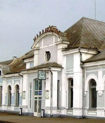 Railroad station in Maladzechna, Belarus